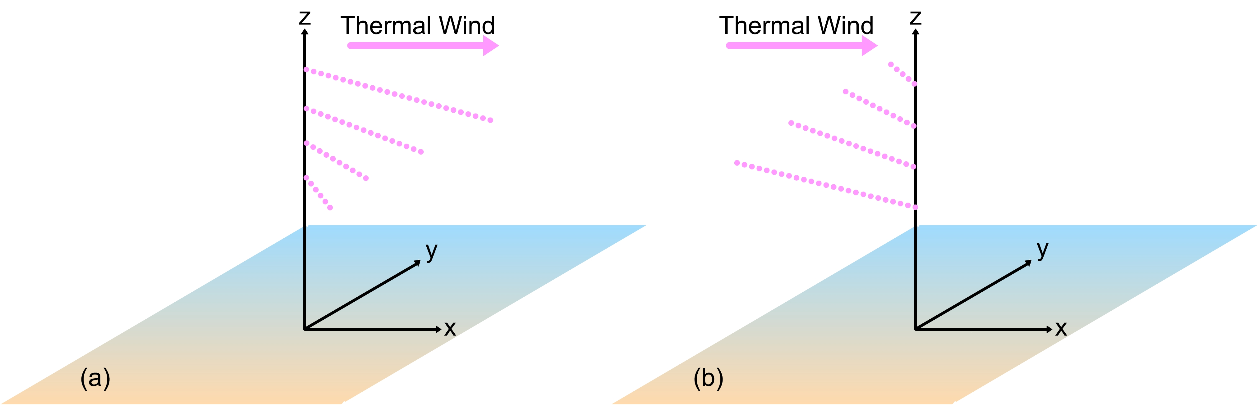 Effect on cold and warm advection of temperature on wind and thermal wind.